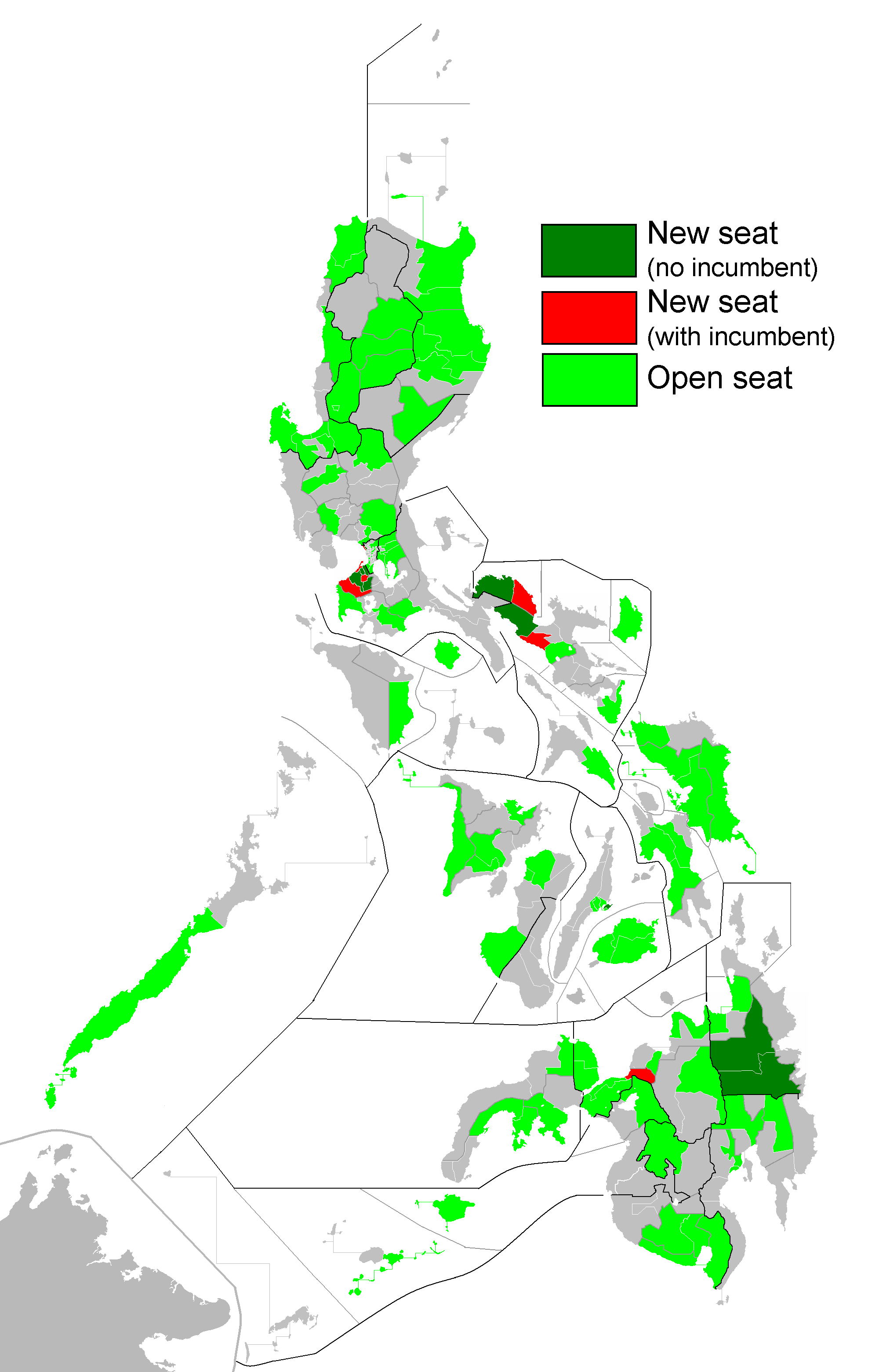 Open and new seats contested in the 2010 Philippine House district elections.